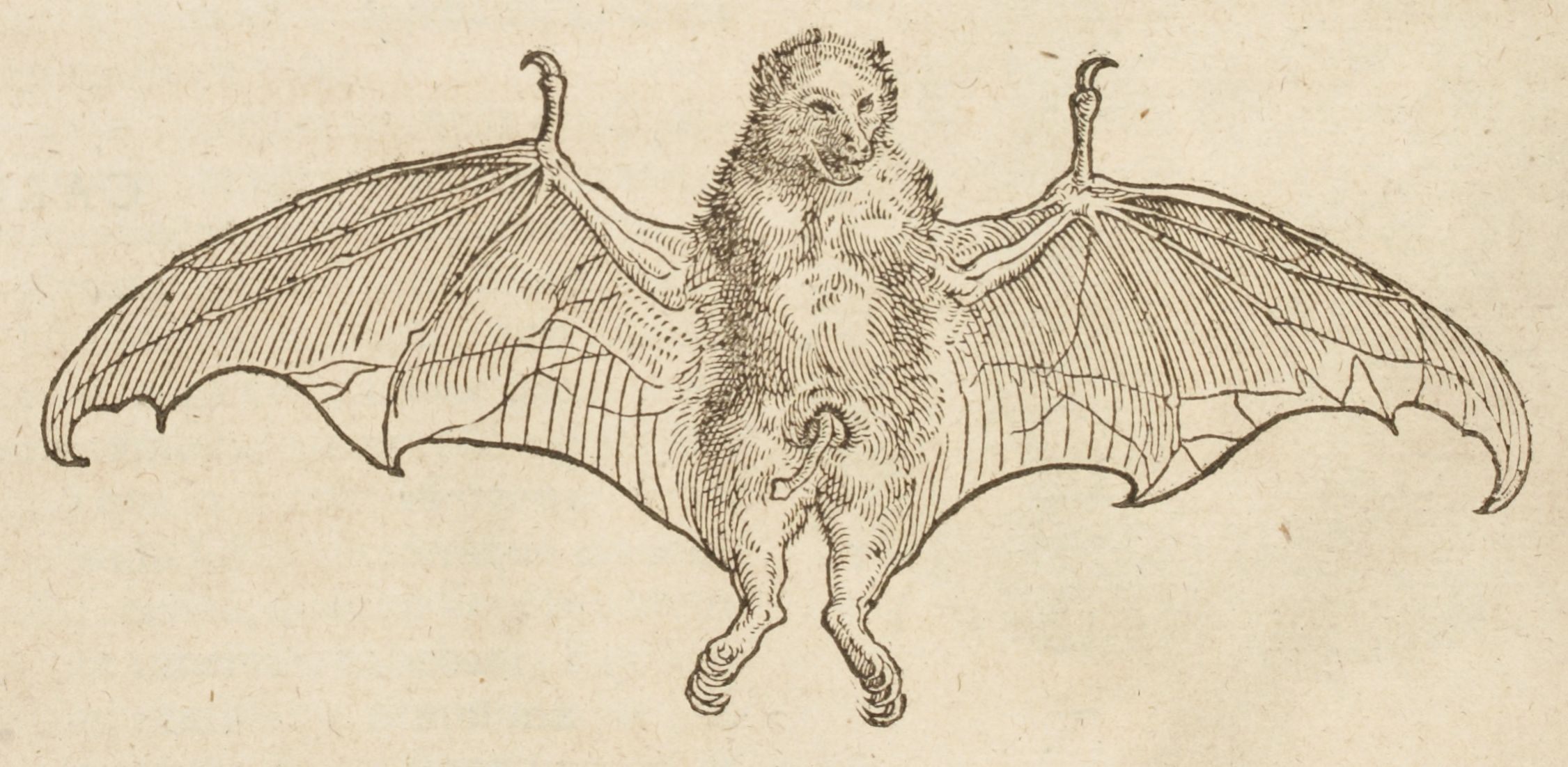 Vespertilio Ingens (=Pteropus niger) from Carolus Clusius, Exoticorum libri decem, 1605